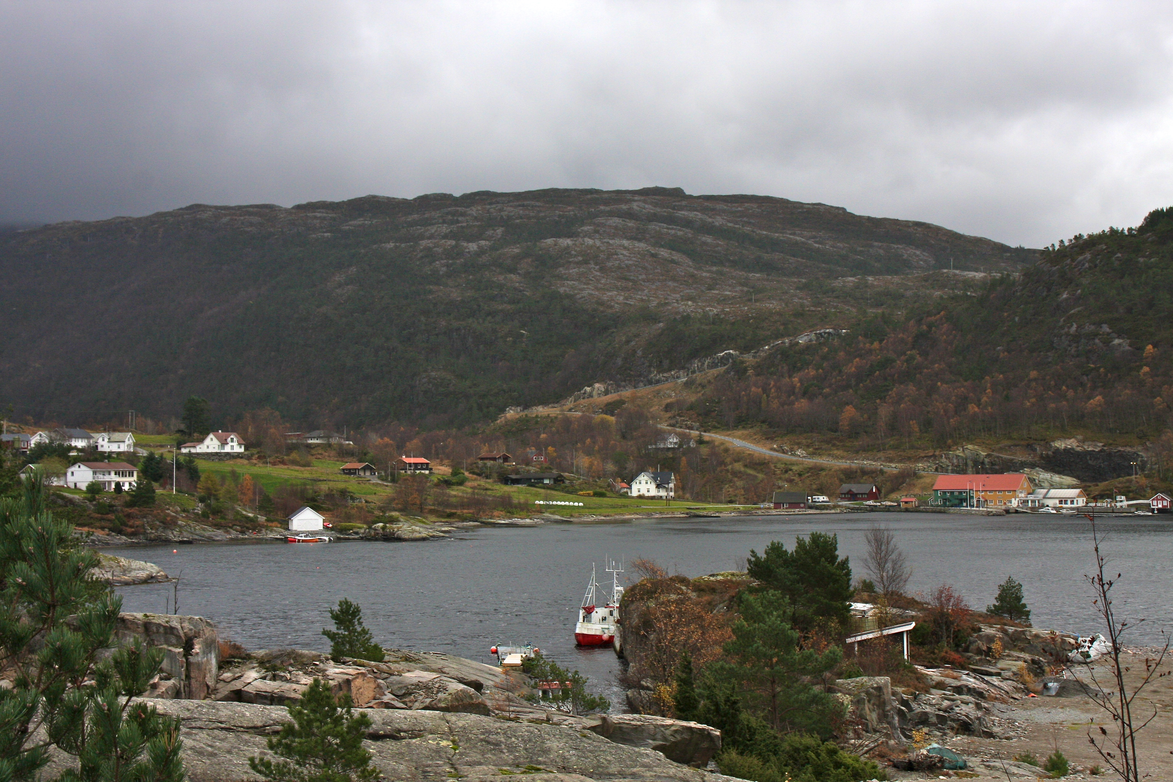 Gulen municipality, Norway.